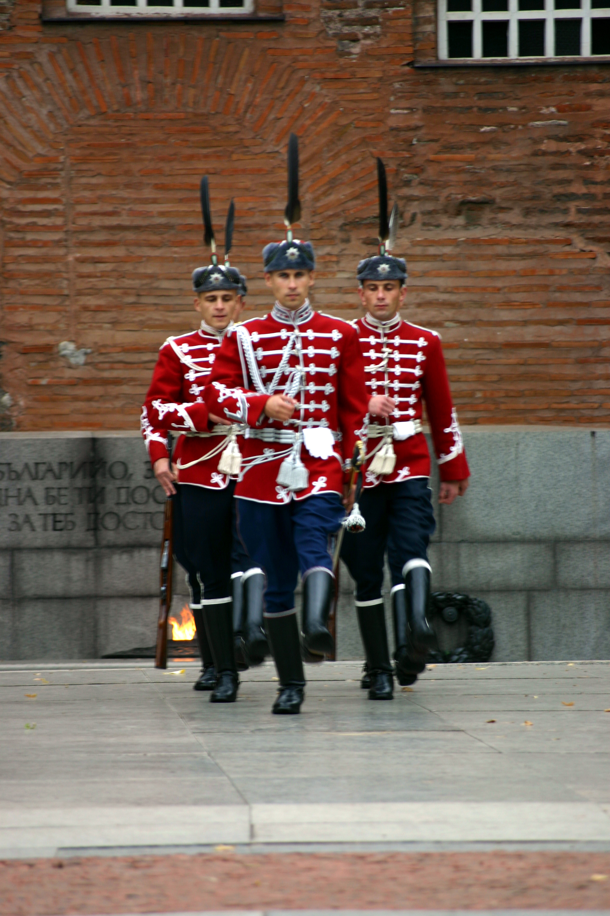 Three soldiers of the National Guard at the Eternal Flame in Sofia.